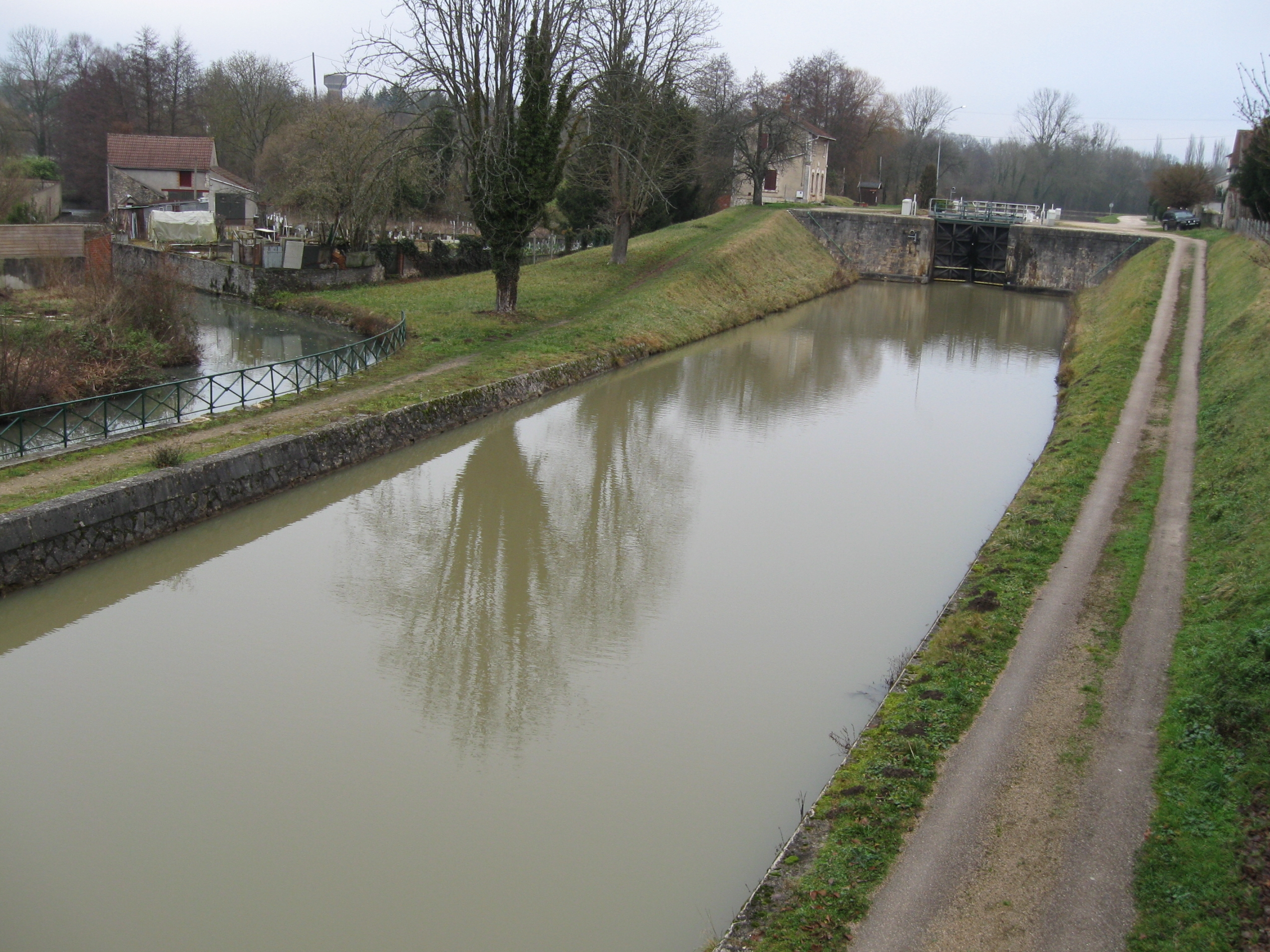 Canal de Briare and the Trézée river, Ouzouer-sur-Trézée, Loiret, France. The Trézée river is on the left. Pic taken from the top of the bridge at the southern end of Rue Grande, looking north and upstream.